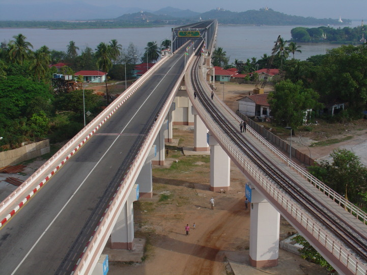 The Thanlwin Bridg in Mawlamyine, Burma